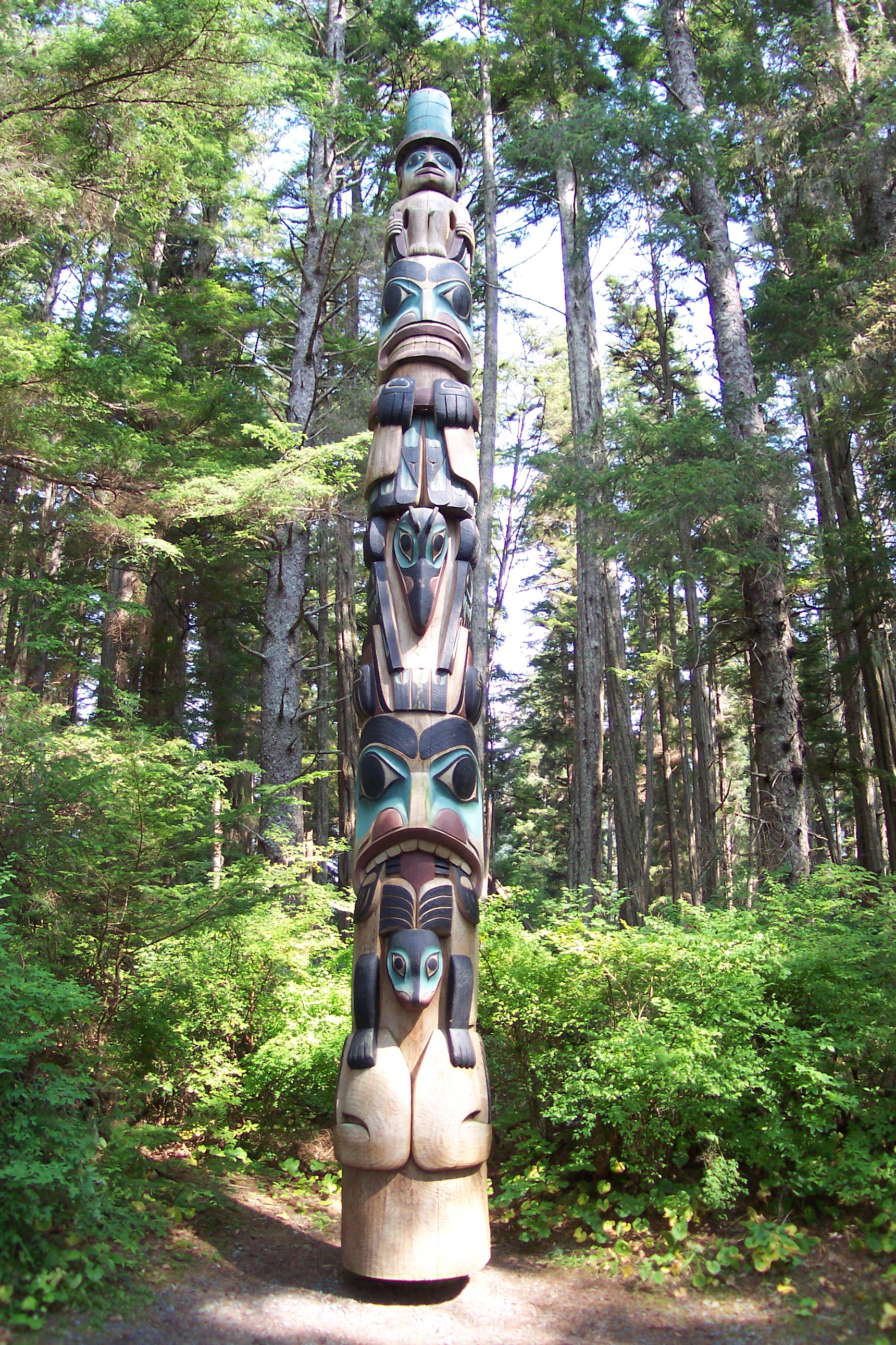 One of the many Native Alaskan totem poles on display at Sitka National Historical Park, Alaska. Photograph by Robert A. Estremo, copyright 2005.